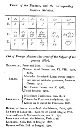 Mathematical notation conversion table inserted at the beginning of Teatrise on Isoperimetrical Problems (1810) by Robert Woodhouse (1773-1827)